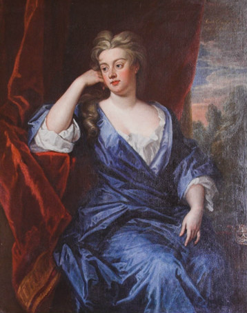 Portrait of Sarah Jennings, Duchess of Marlborough.